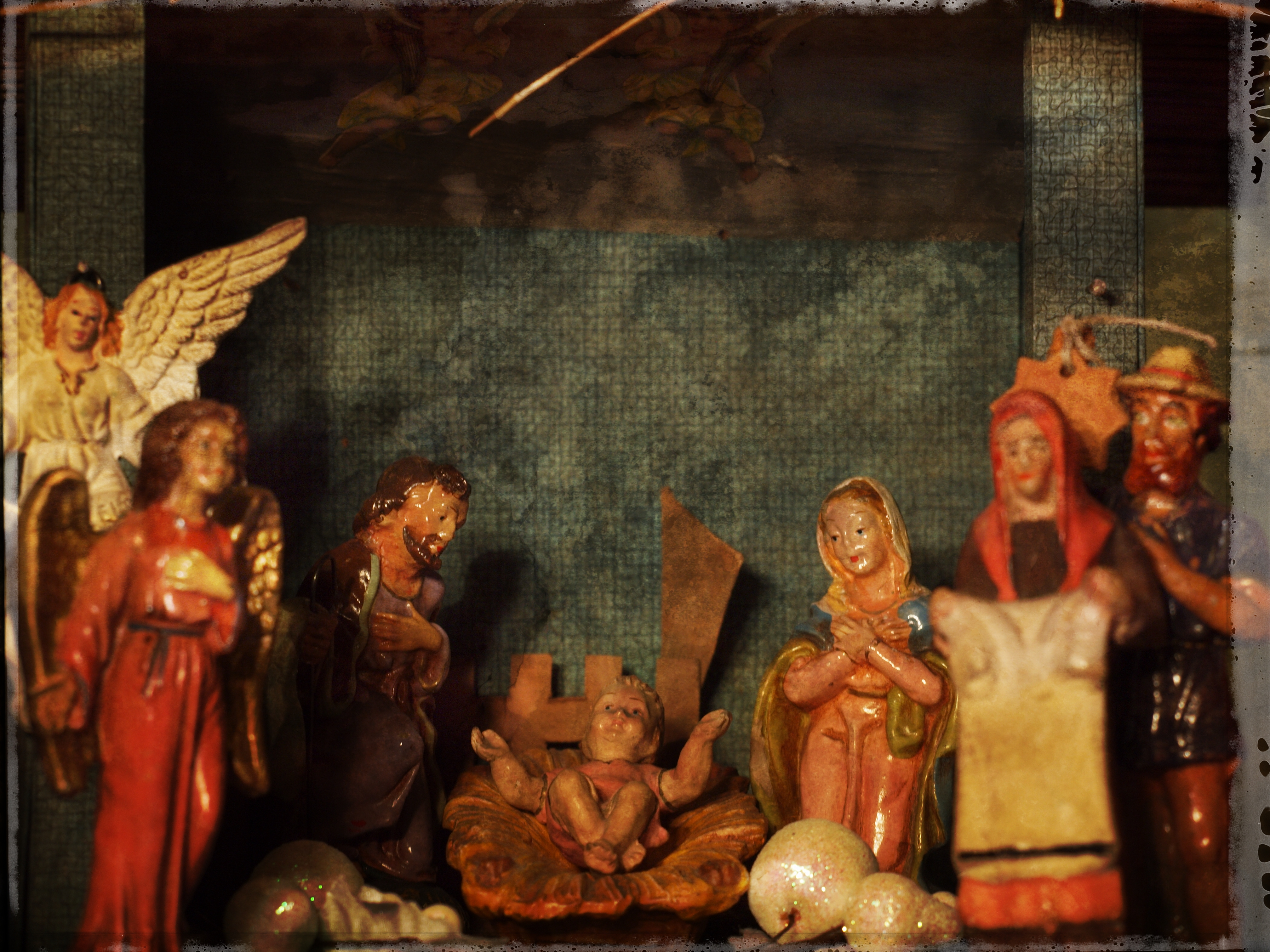 Italian nativity scene with traditional statues